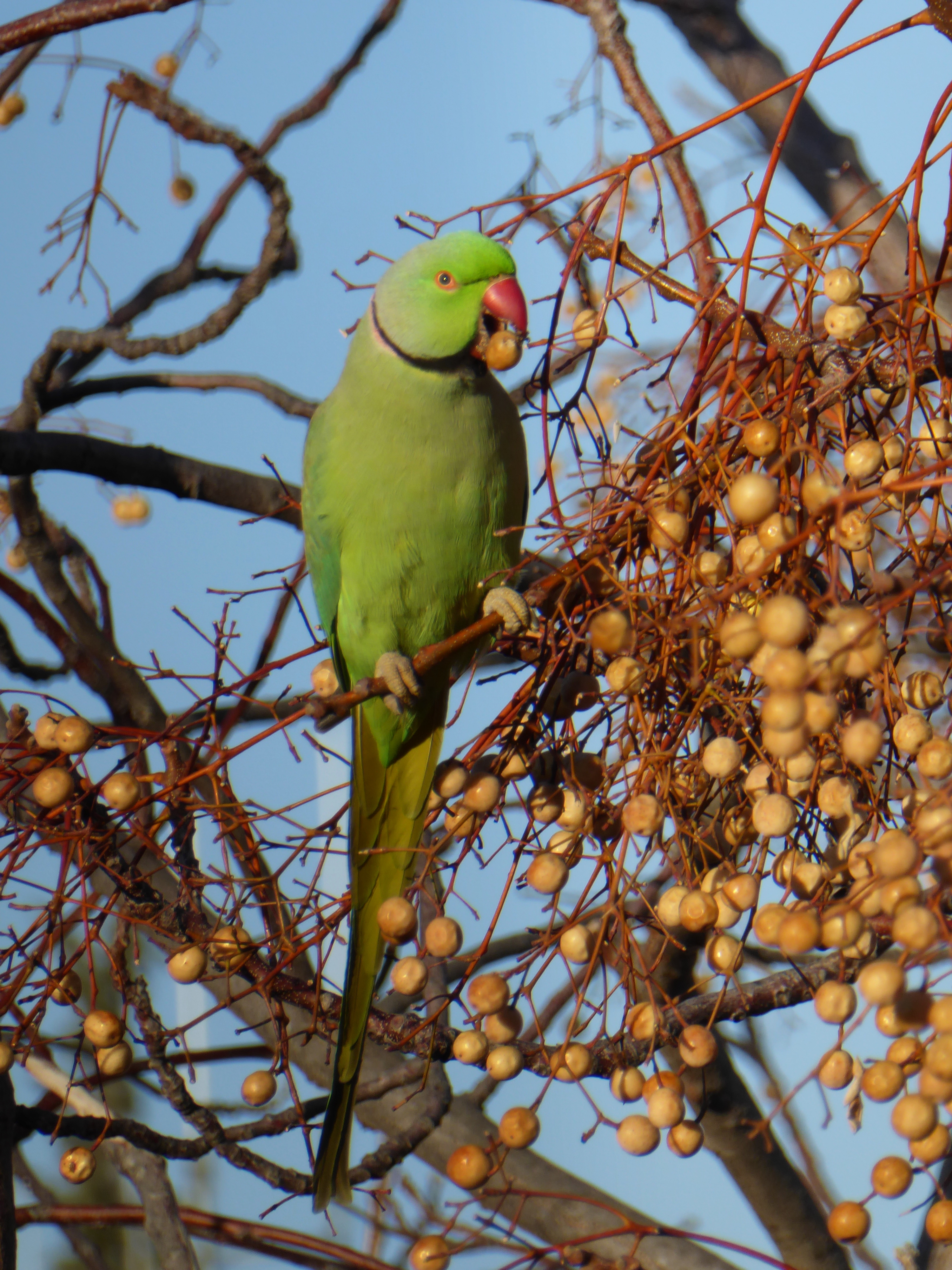 Animals of Israel